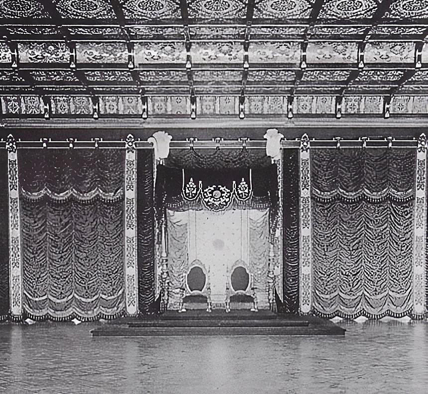 Main Building of Meiji Palace